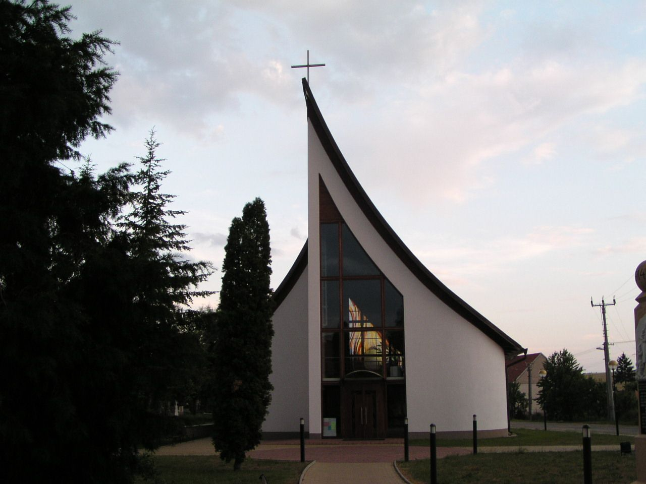 Church of St Wenceslas in Petrov (Czech Republic)